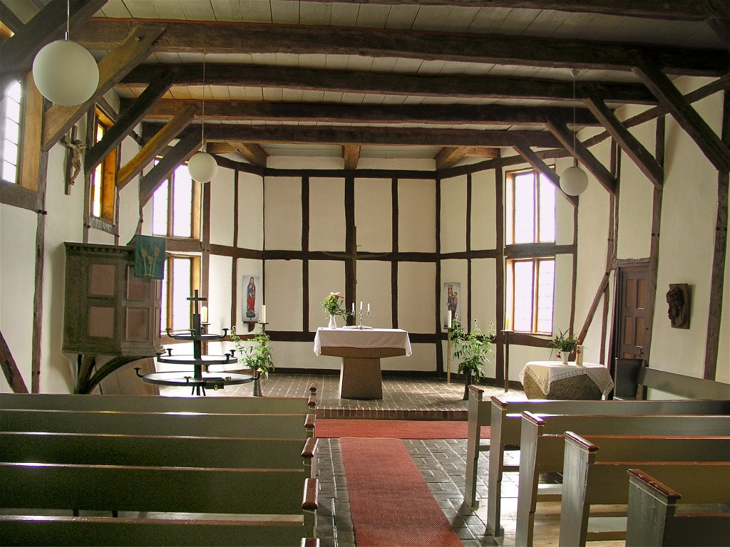 Interior of the church of Consrade, Mecklenburg-Western Pomerania, Germany